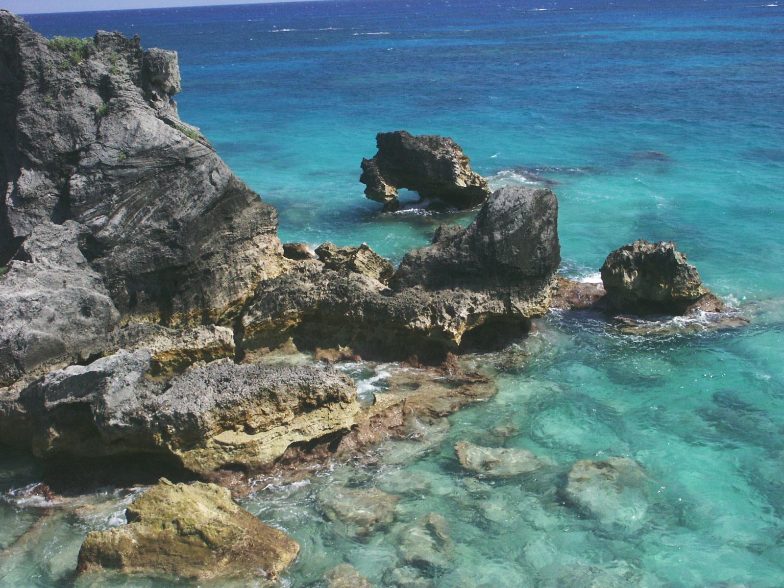 James Sloan Horseshoe Beach, Bermuda Konica Minolta S404 April 2003